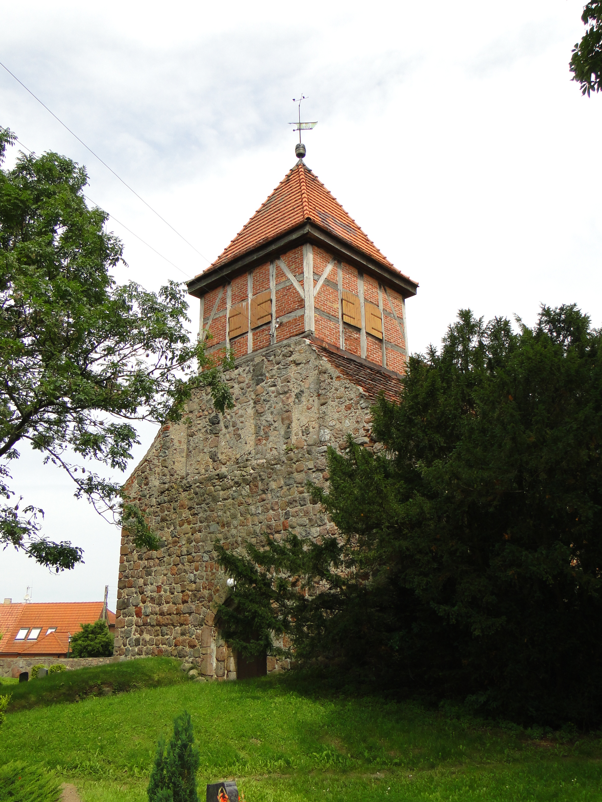 Church in Jatzke, district Mecklenburg-Strelitz, Mecklenburg-Vorpommern, Germany